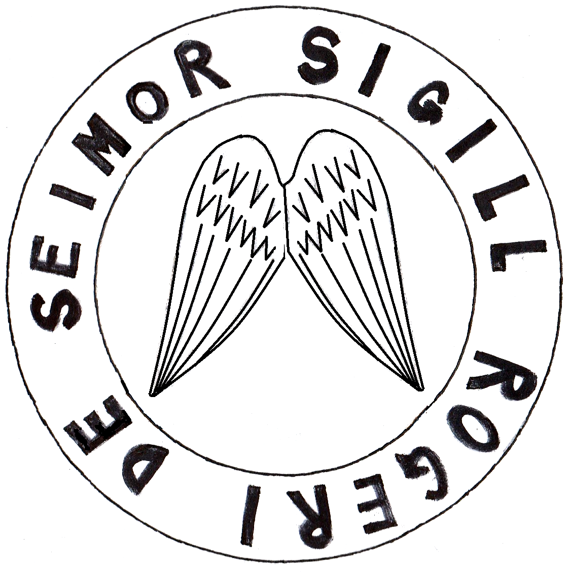 Recreation of seal reportedly used by Roger de Seymour (died circa 1299) of Penhow Castle, as reported by the Duchess of Cleveland in her Battle Abbey Roll (Wilhelmina, Duchess of Cleveland The Battle Abbey Roll with some Account of the Norman Lineages, 3 volumes, London, 1889, vol.1, Sent More[1]) thus: "The Dukes of Somerset undoubtedly derive from William St. Maur, who in the thirteenth century possessed himself of Woundy and Penhow, where he took up his abode. "The church of Penhow was dedicated to St. Maur; their park there was called by their own name; and here likewise they had their castle, which continued in the family till Henry VIII.'s time."—Collins. The seal of his son Roger (who died about 1299) shows the Vol or Wings conjoined in Lure, still borne by his descendants, circumscribed Sigill Rogeri de Seimor". (Latin: sigillum, i.e. "seal of Roger de Seymour") Image of Seymour Vol based on monumental brass of Nicholas Wadham (1508-1508) infant son of Sir Nicholas I Wadham (d.1542) of Merryfield, Ilton, by his 2nd wife Margaret Seymour (aunt of Queen Jane Seymour, 3rd wife of King Henry VIII), Ilton Church, Somerset.